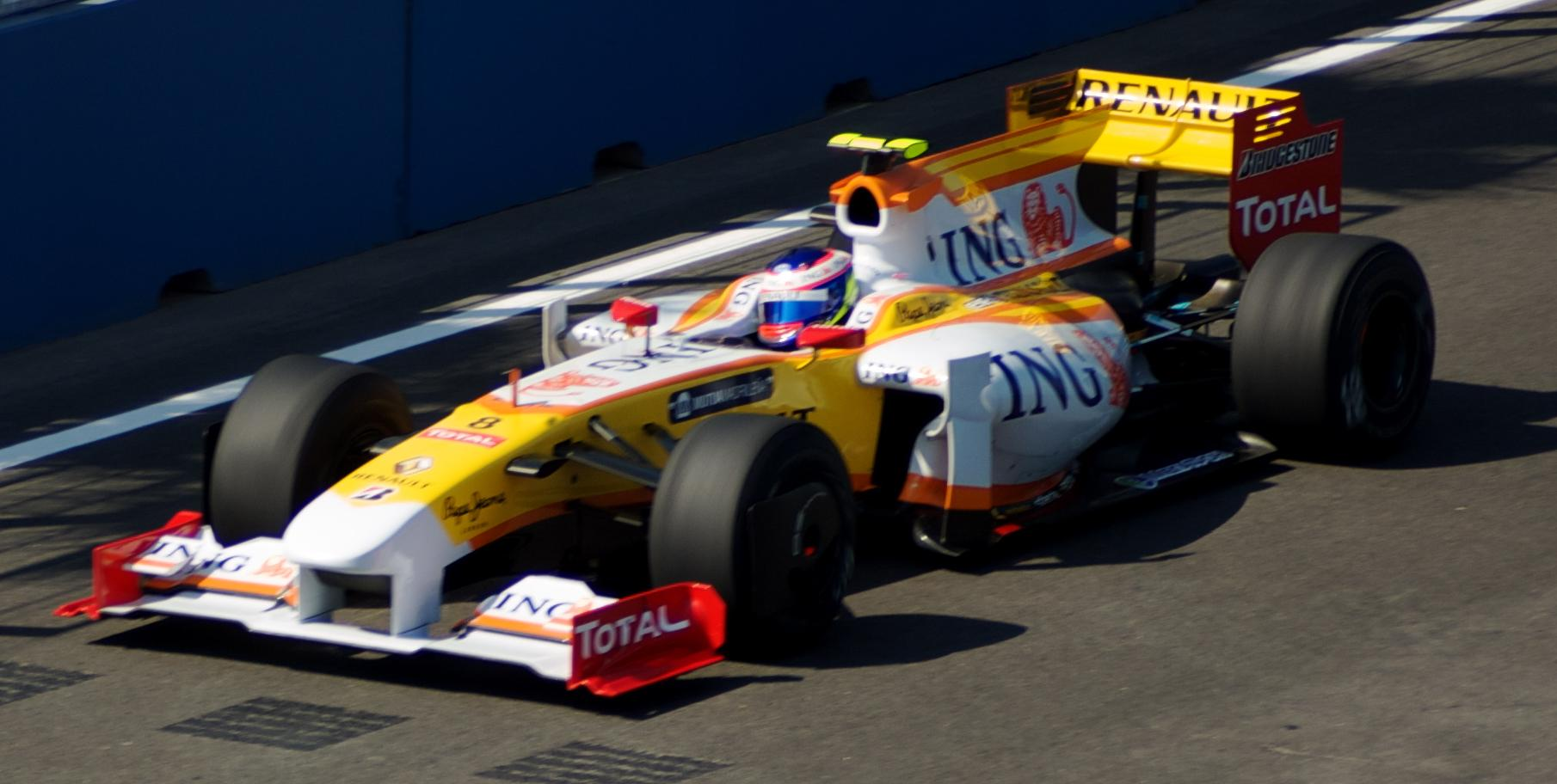 Romain Grosjean driving for Renault F1 at the 2009 European Grand Prix.